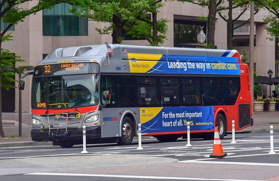 WMATA New Flyer XN40 2908 on Route 32 during Memorial Day 2017